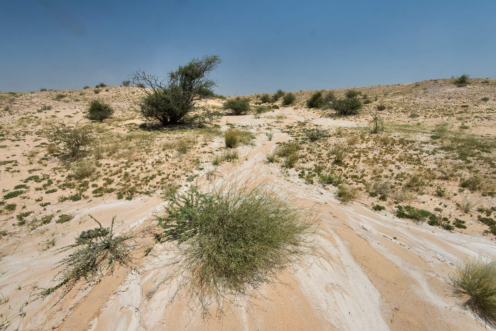 Panicum turgidum in a wadi near Salwa Road, near Mukaynis, Qatar.